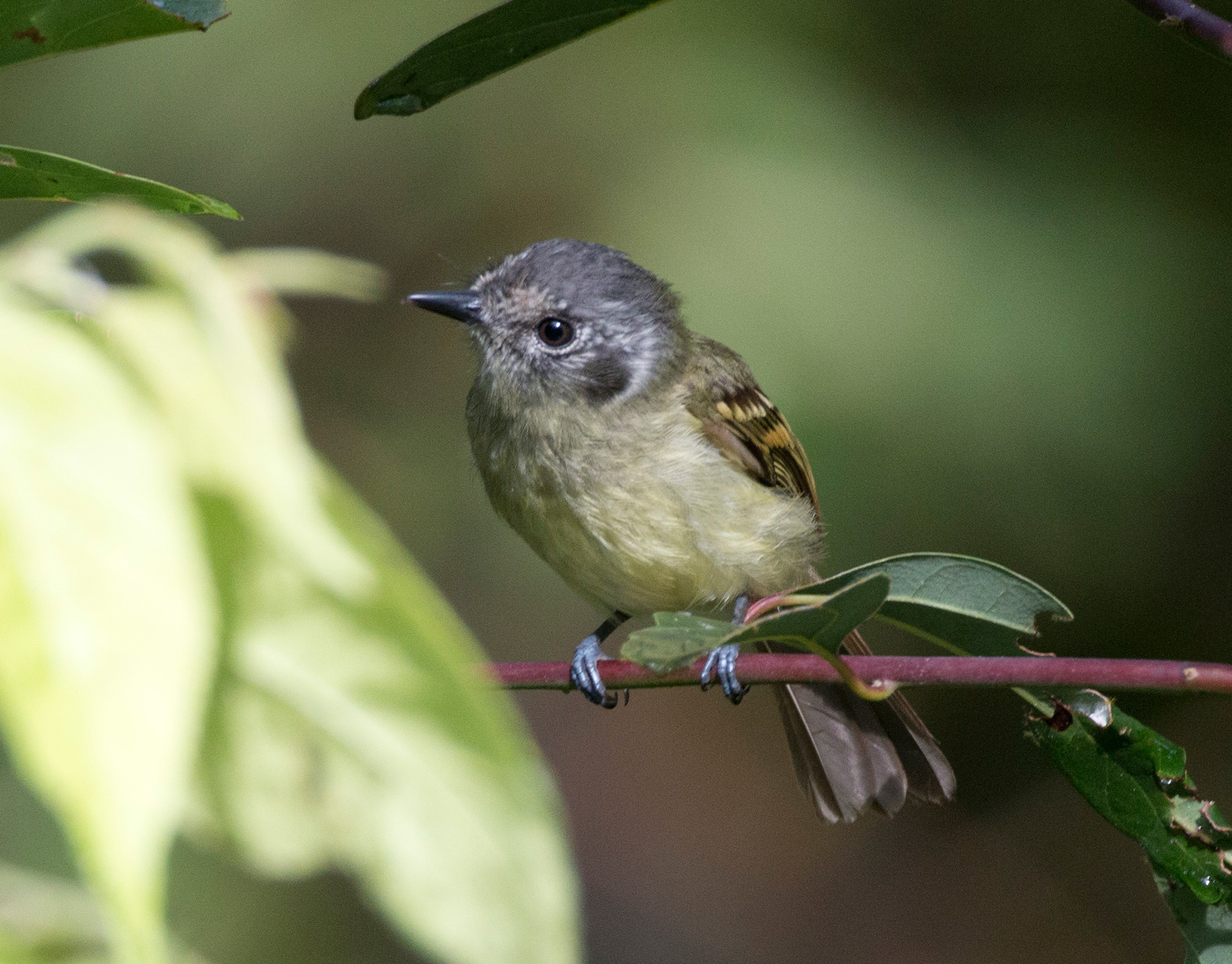 Marble-faced-Bristle-tyrant, Copalinga Ecolodge near Zamora, Ecuador